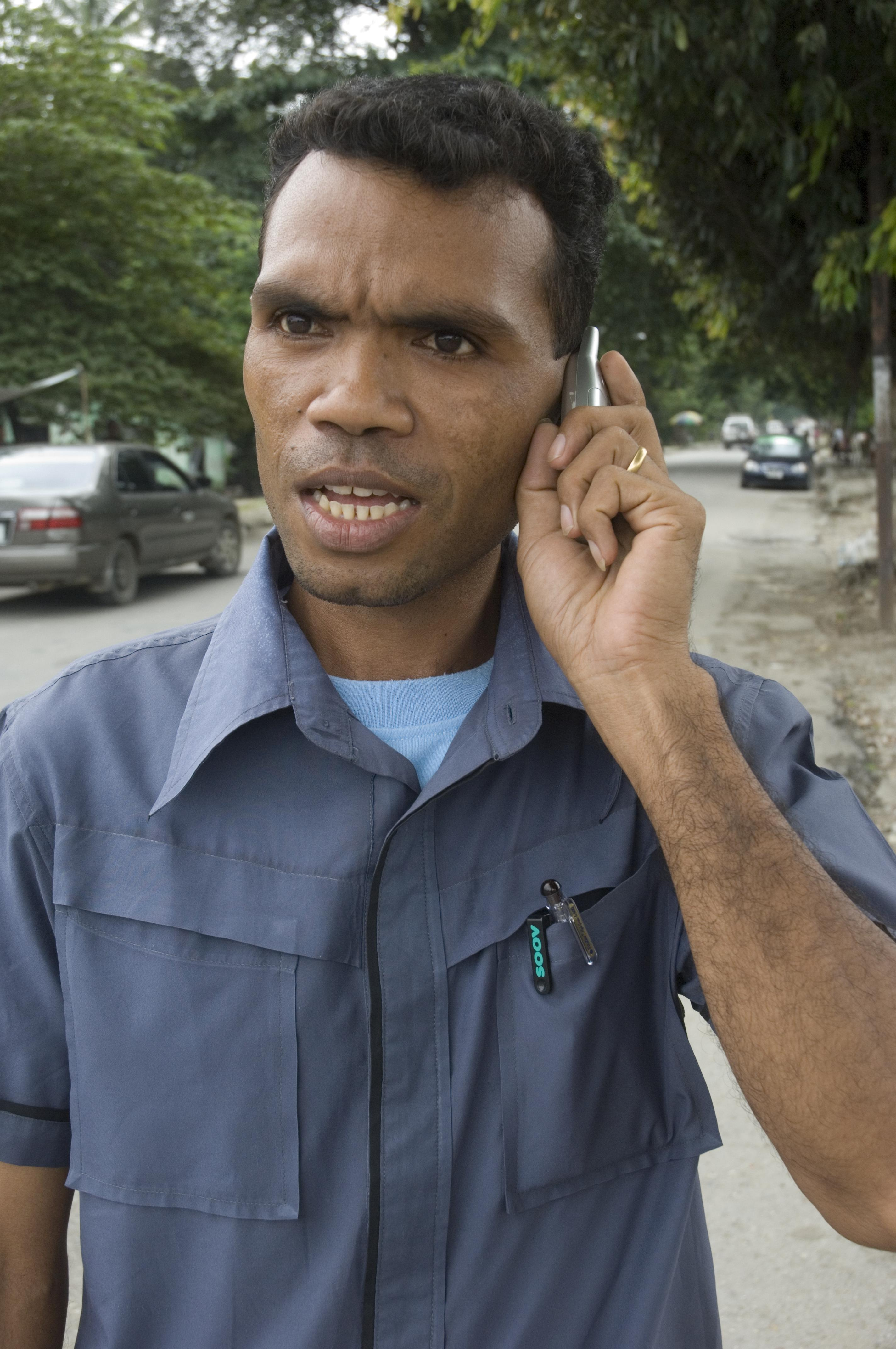 Mobile phone user, Timor Leste, 2008. Photo: Lorrie Graham / AusAID